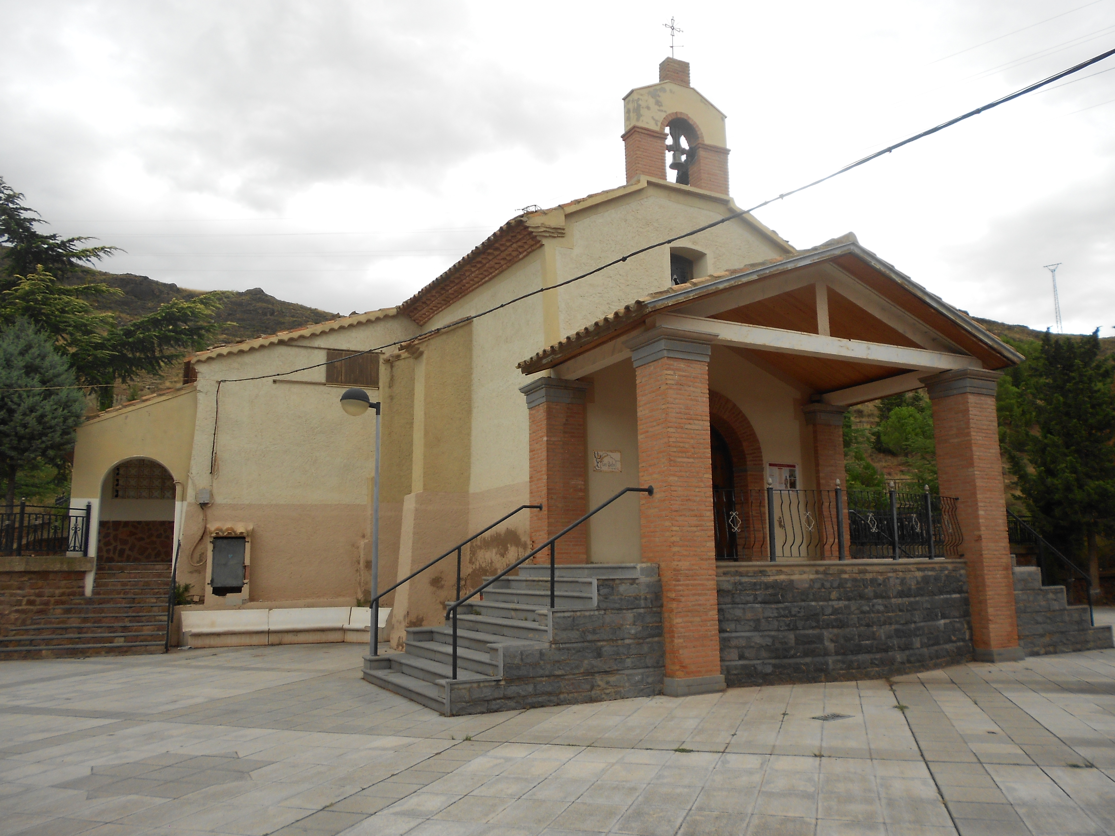 San Babil's Hermitage (Illueca, Spain)